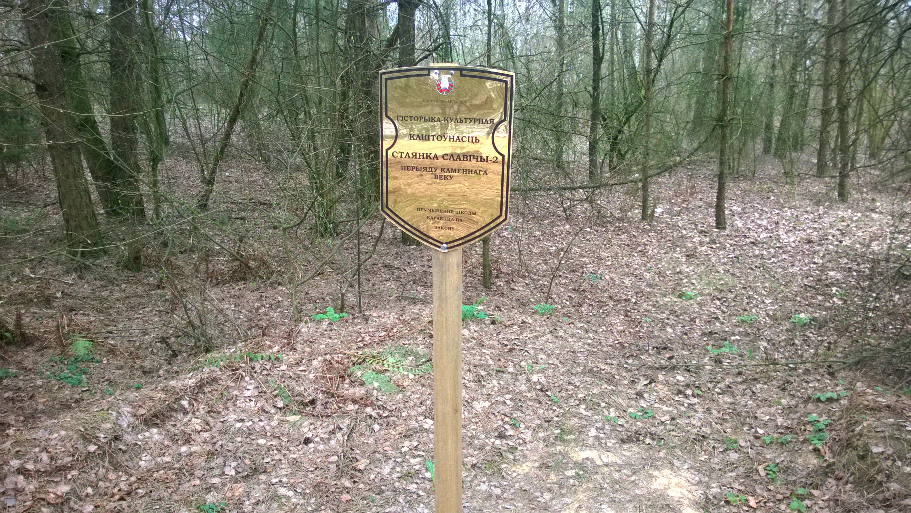 Стаянка Славічы-2 This is a photo of Belarusian heritage monument. Reference number: 413В000226 ( WLM)